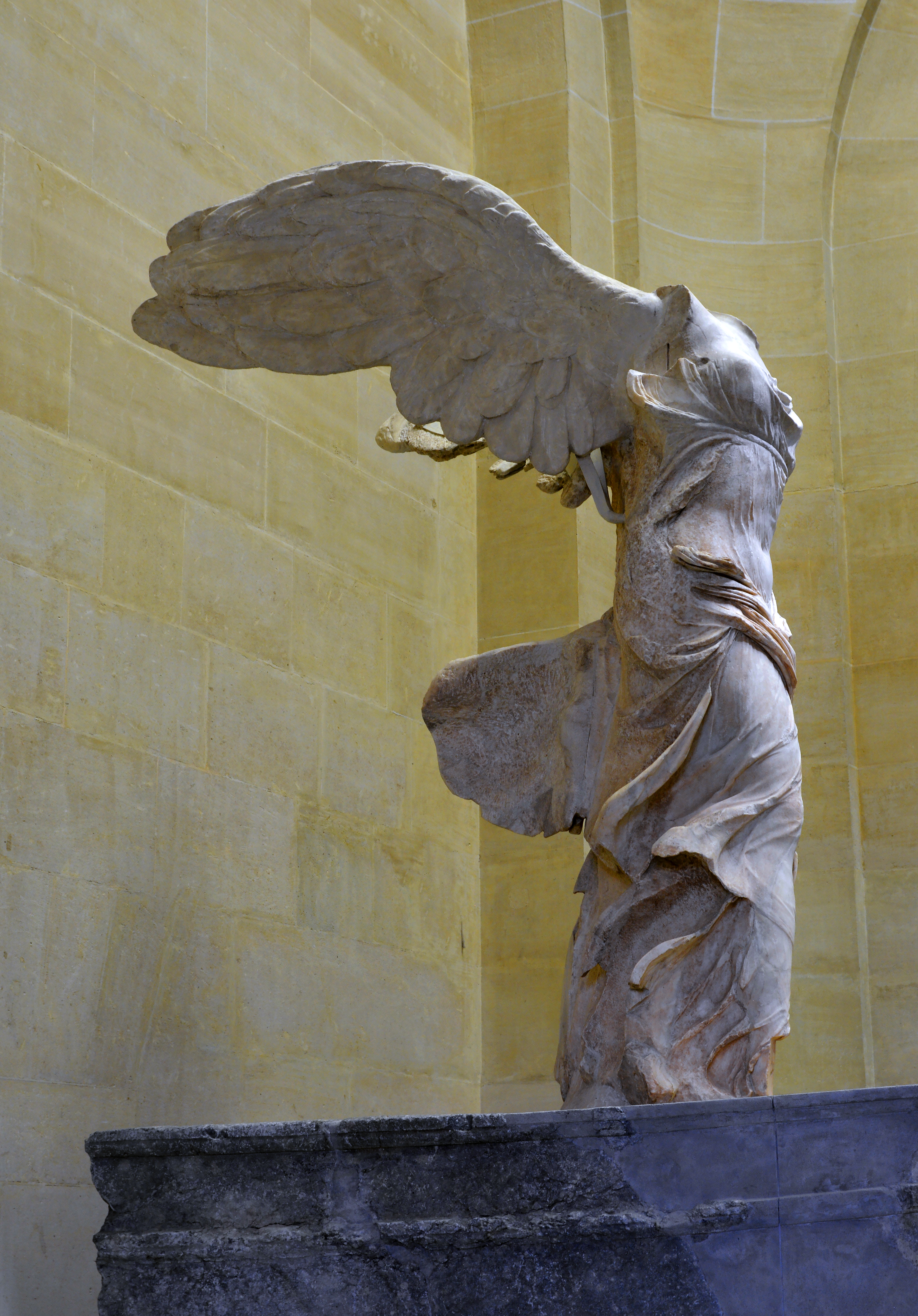 Front right view of the Nike of Samothrace